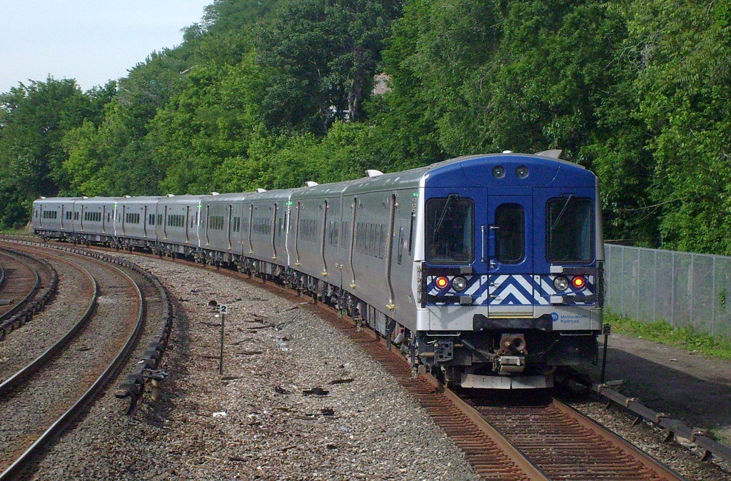 Metro-North M7-A leaving Morris Heights station in The Bronx.